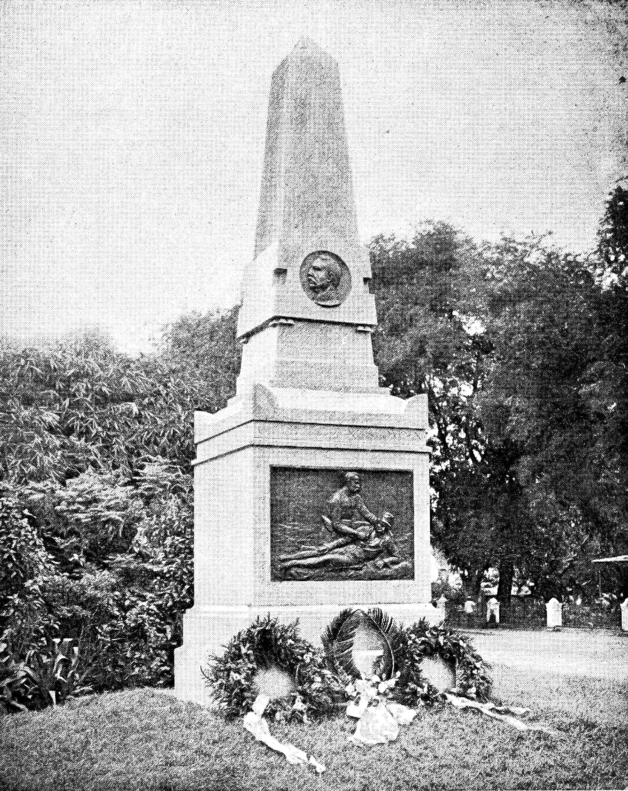 Monument von Bultzingslowen